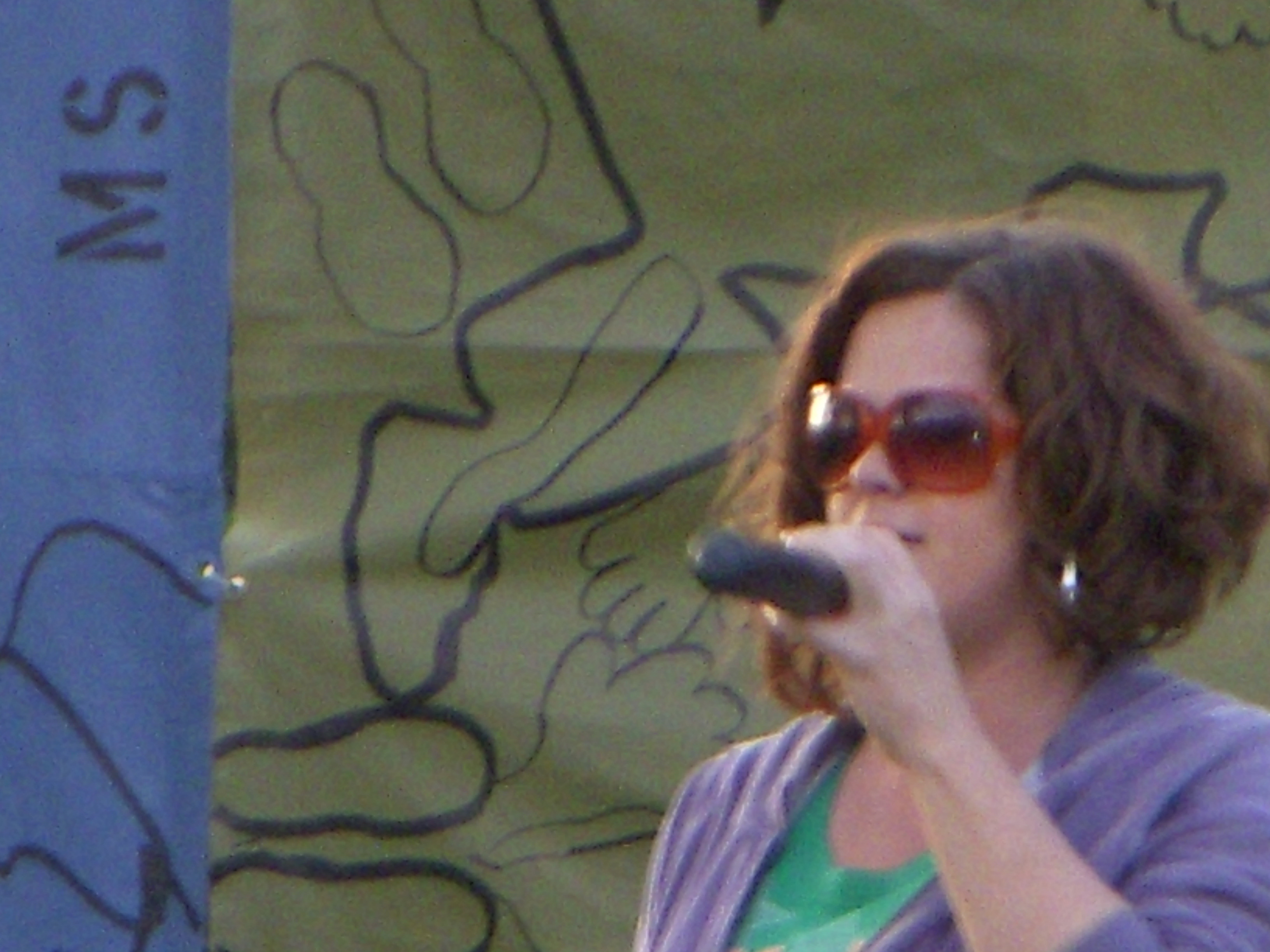 A photo of R&B singer/spoken word artist Desdamona performing at Matthews Park in Minneapolis.